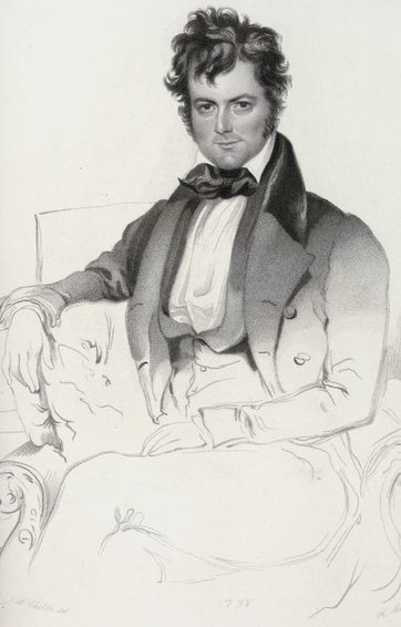 Engraving of Edwin Forrest an American actor